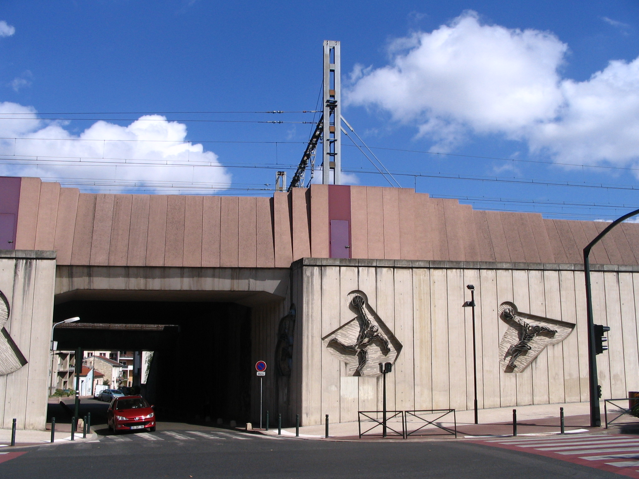 LGV Atlantique in Malakoff, Hauts-de-Seine, France.